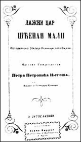 Facsimile of the original drama Scepan Mali